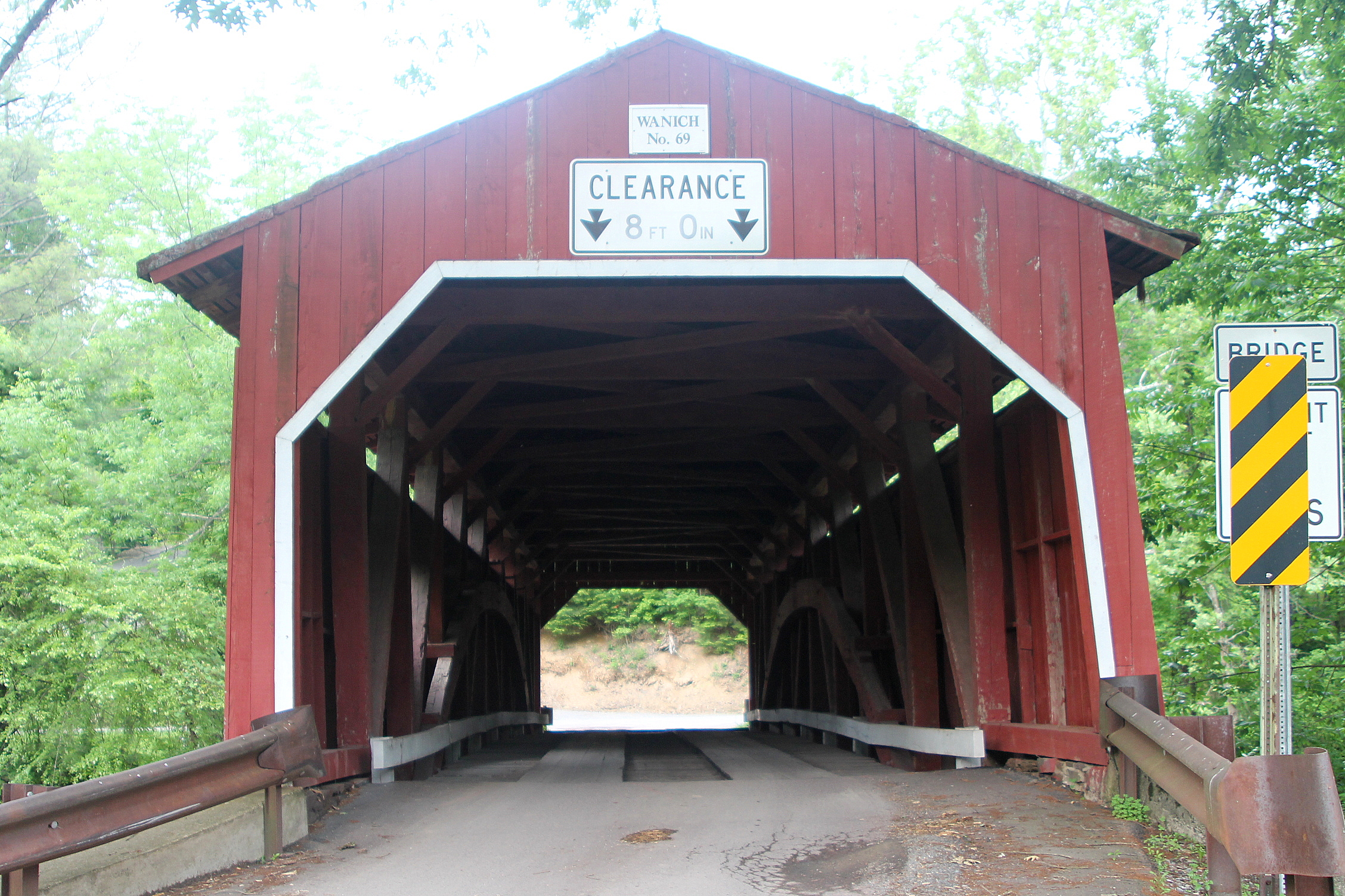 Wanich Covered Bridge No. 69 in late spring